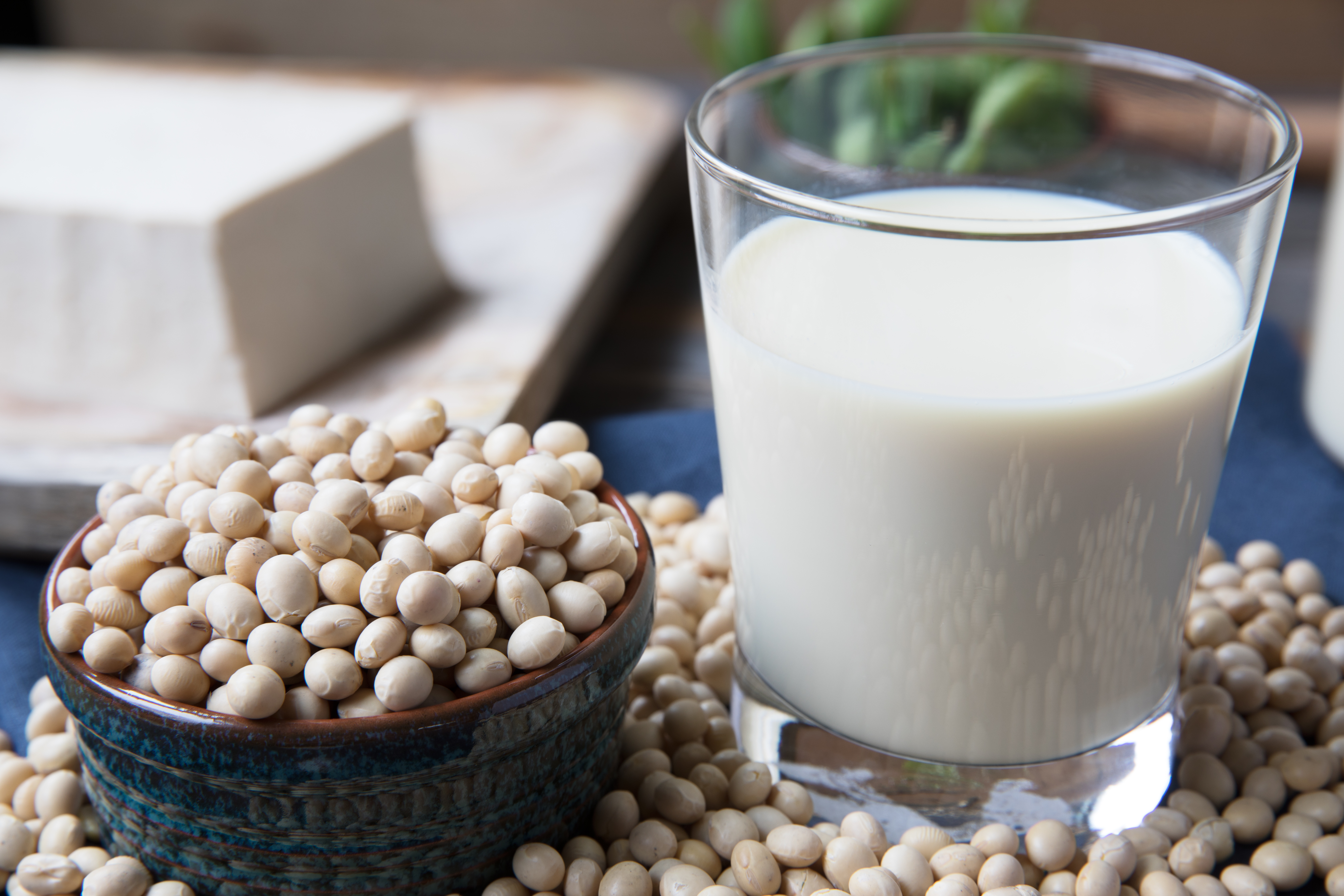 This photo is available under Creative Commons. If you use this image, please give credit to with a clickable link.